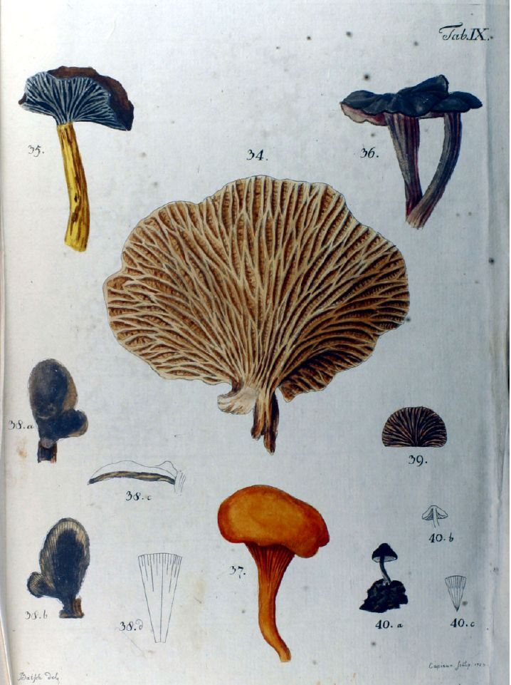 Plate depicting fungi from 1783 publication "Elenchus Fungorum", in 3 volumes- artist August Batsch